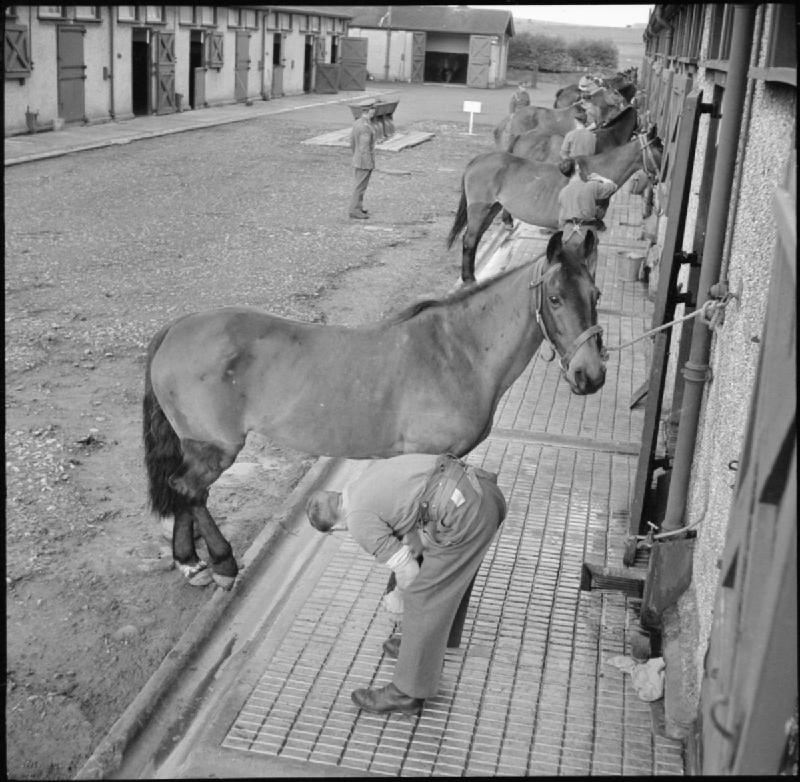 The British Army in the United Kingdom 1939-45 Convalescent horses being cared for at a Royal Army Veterinary Corps hospital at Tidworth in Wiltshire, 11 December 1941.